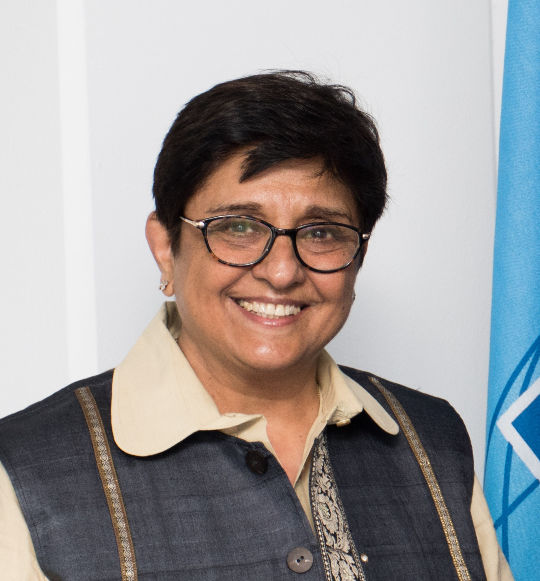 Dr Kiran Bedi in Geneva 8 April 2016, at the ITU headquarters.